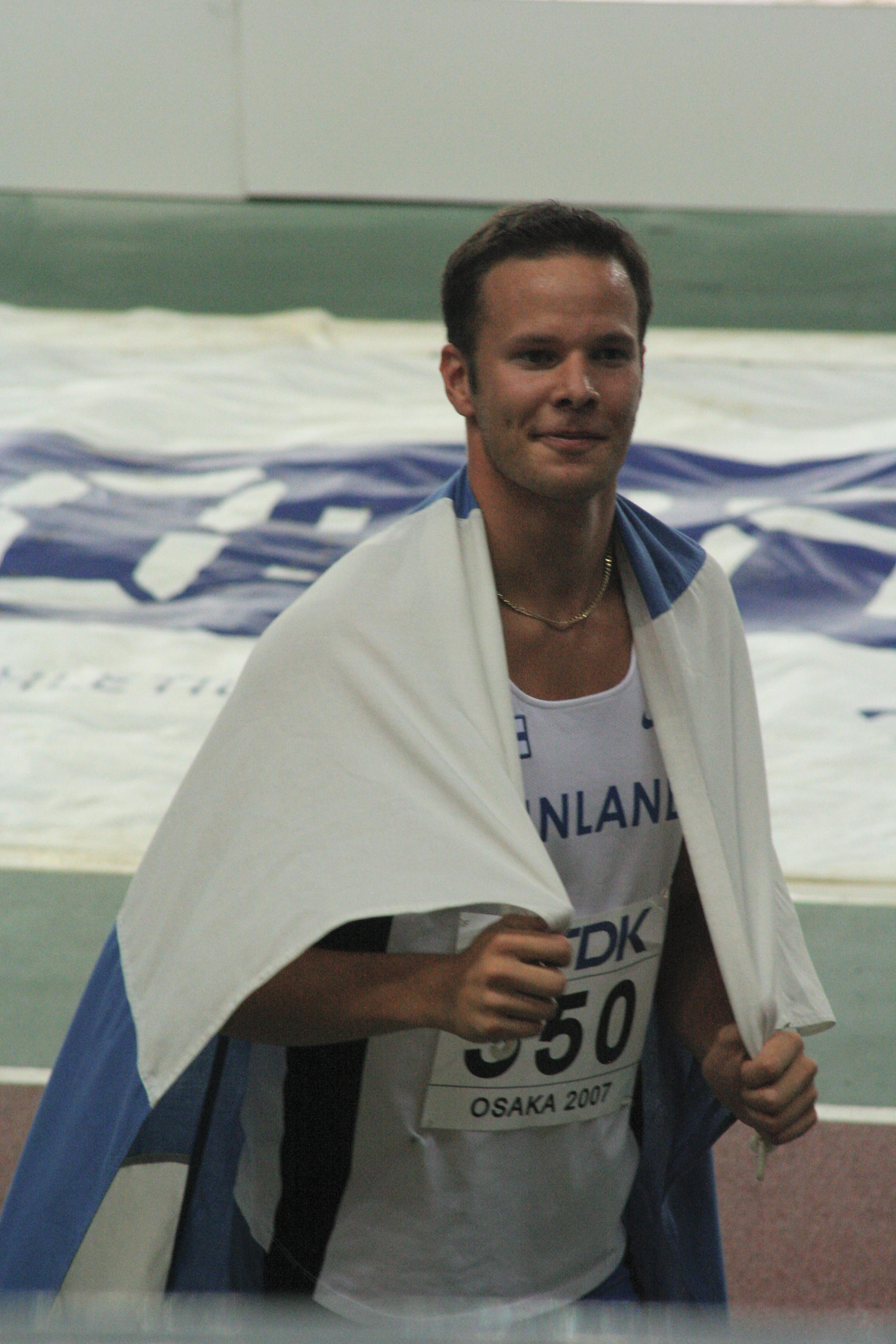 World Athletics Championships 2007 in Osaka - Tero Pitkämäki celebrates his victory in the javelin competition